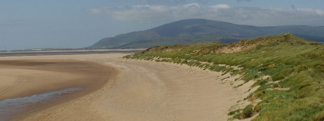 Roanhead Beach Roanhead beach on a fine sunny day!